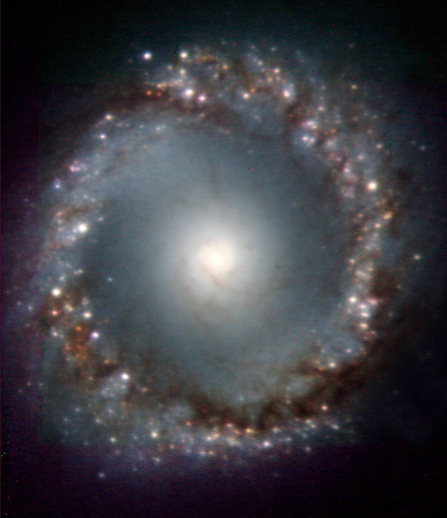 Colour-composite image of the central 5,500 light-years wide region of the spiral galaxy NGC 1097, obtained with the NACO adaptive optics on the VLT. More than 300 star forming regions - white spots in the image - are distributed along a ring of dust and gas in the image. At the centre of the ring there is a bright central source where the active galactic nucleus and its super-massive black hole are located. The image was constructed by stacking J- (blue), H- (green), and Ks-band (red) images. North is up and East is to the left. The field of view is 24 x 29 arcsec2, i.e. less than 0.03% the size of the full moon! ID: phot-33a-05 Press Photo: ESO 33/05 Object: NGC 1097 Telescope: UT4/Yepun Instrument: NACO Size: 1467x1695 Credit: ESO